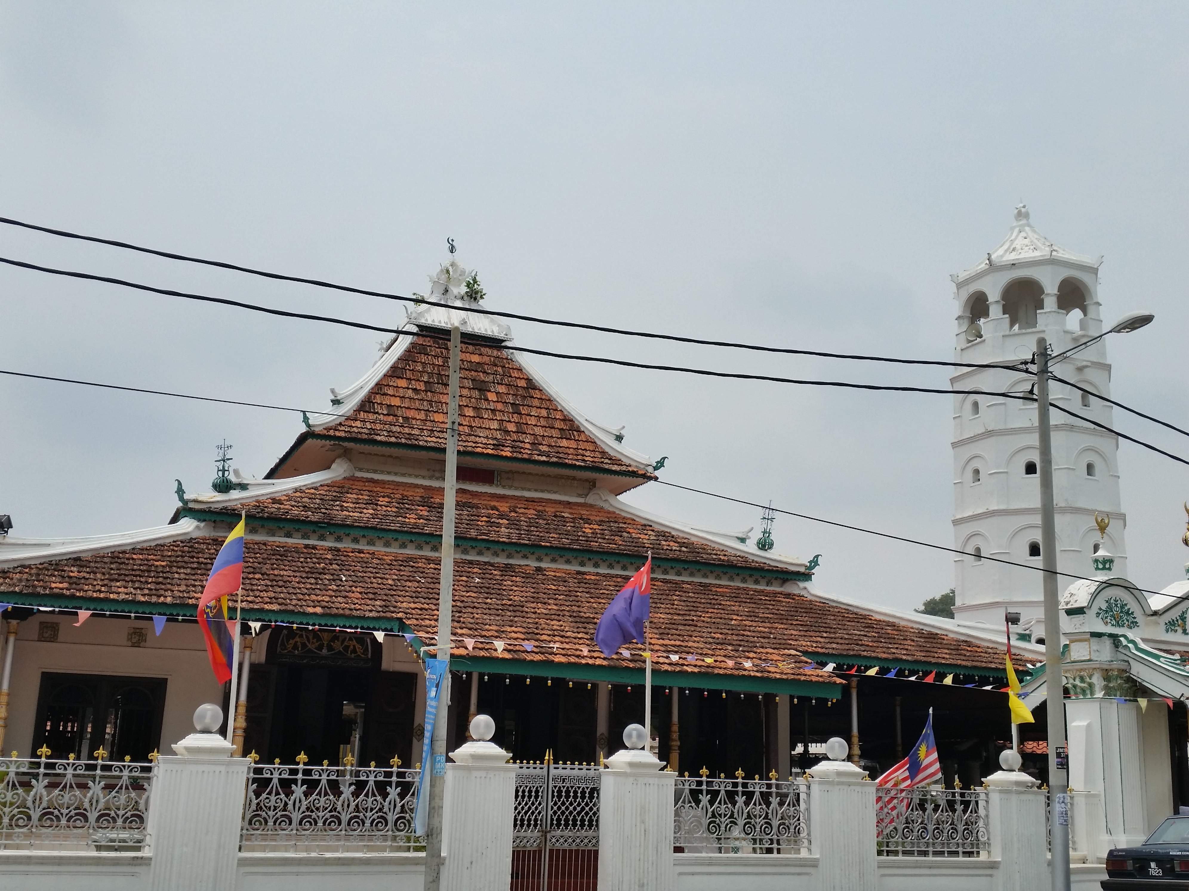 Tranquerah Mosque